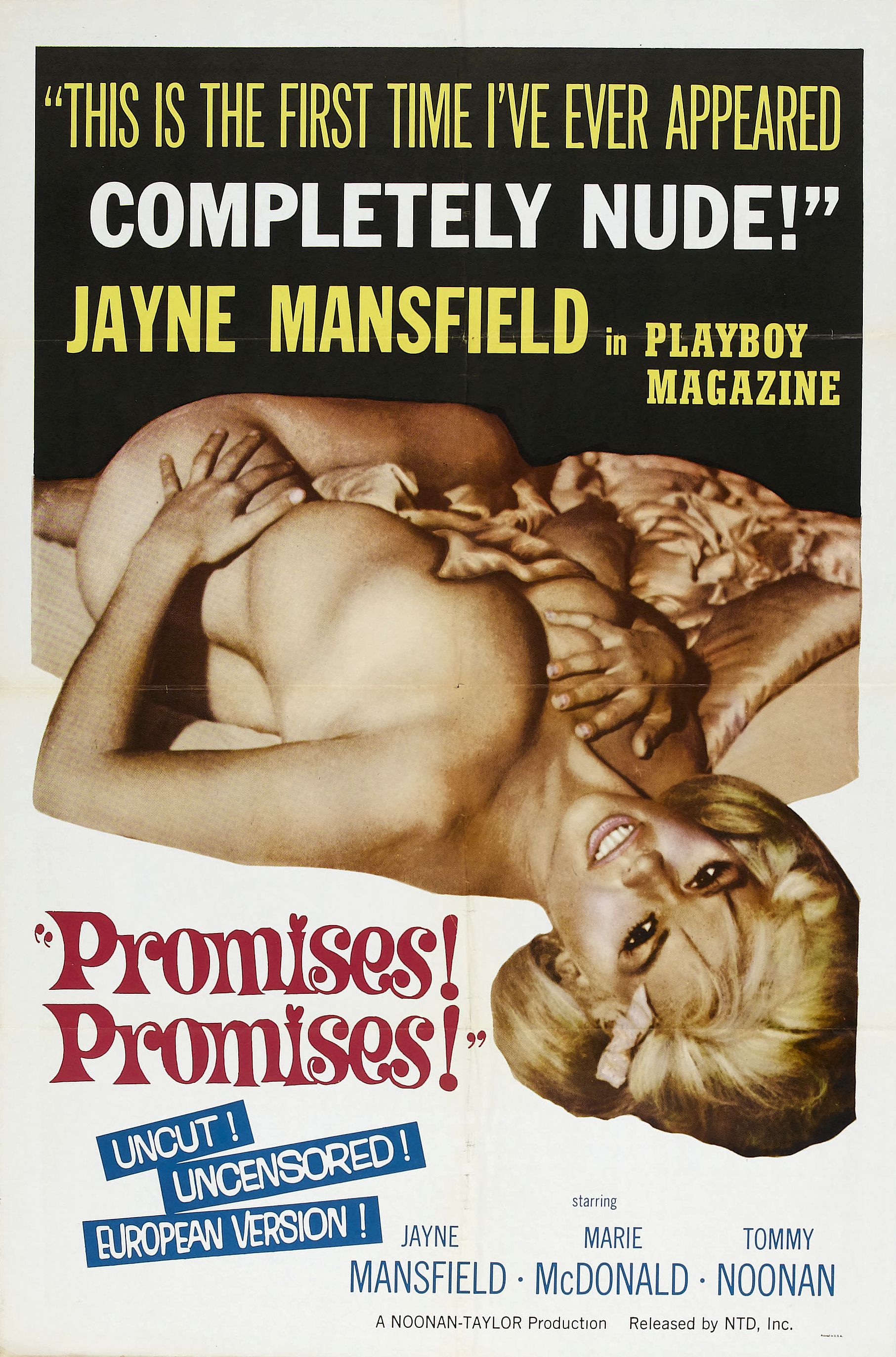 Film poster of the exploitation film Promises! Promises!